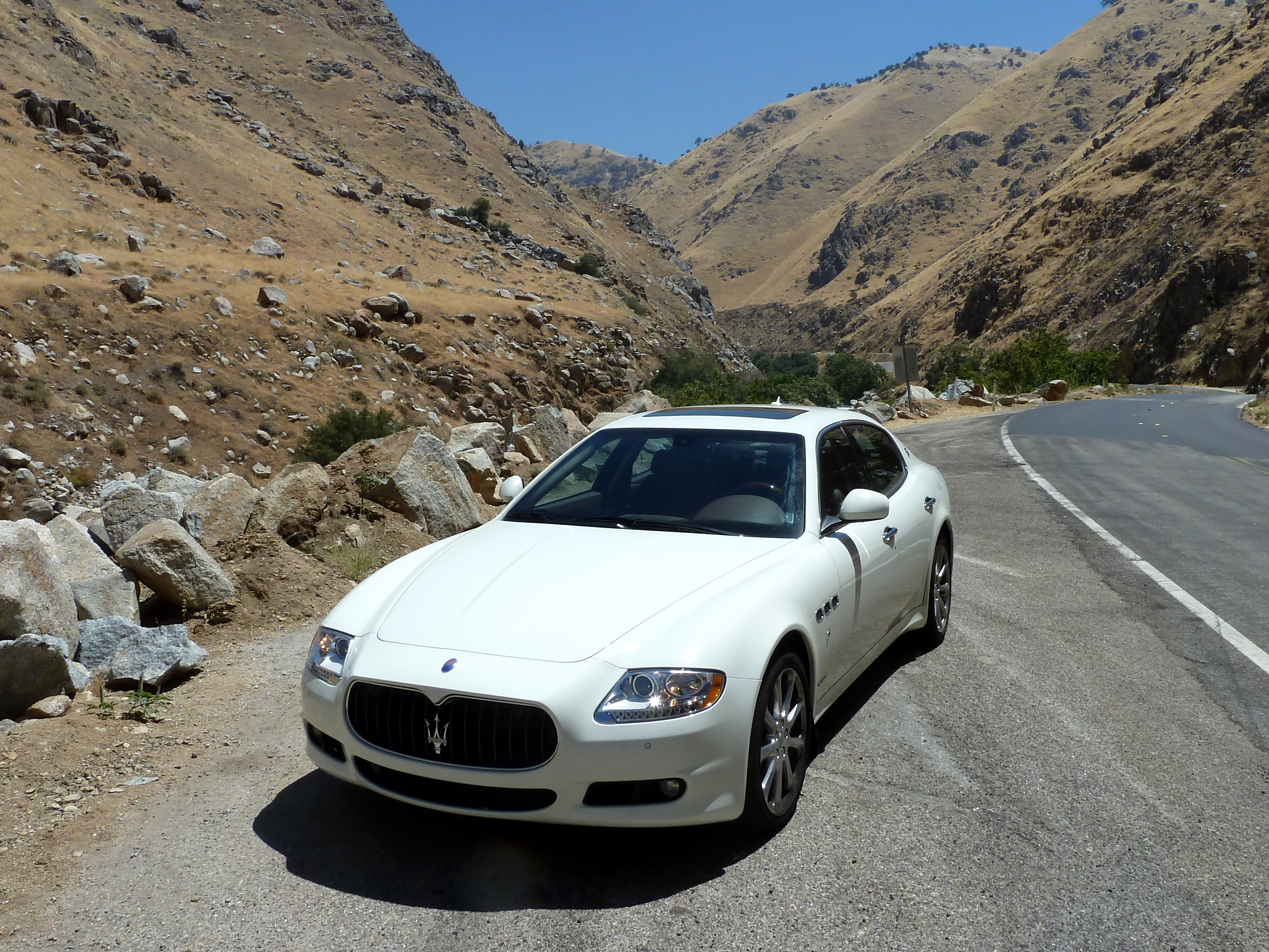 2009 Maserati Quattroporte Executive GT., alongside Highway 178 and the Kern River Canyon near Bakersfield, California, USA.